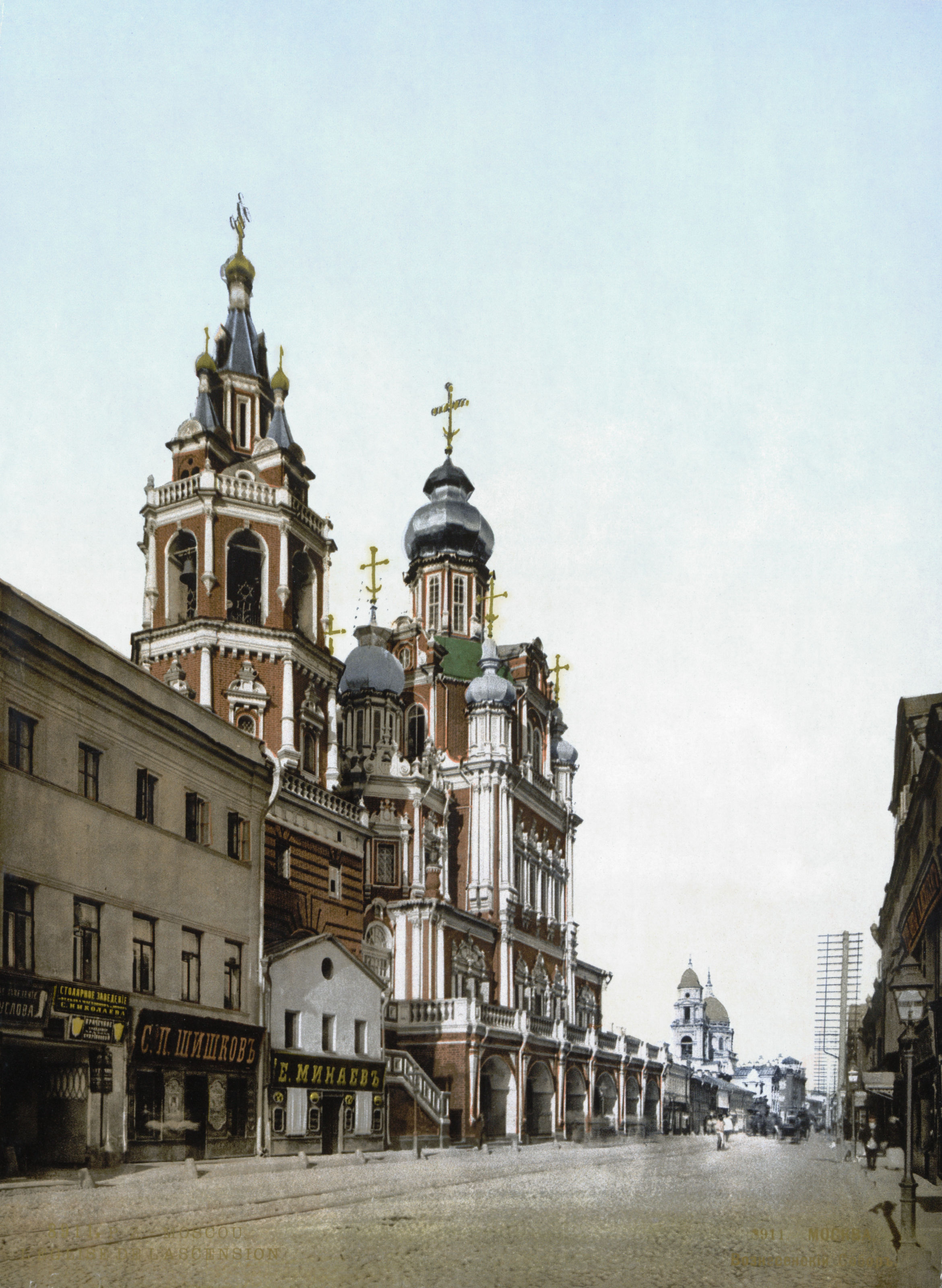 19th-century postcard of Pokrovka Street in Moscow.